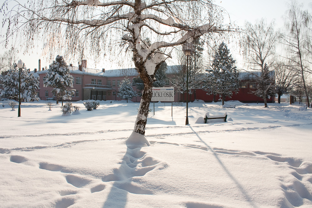 winter in Licki Osik, Croatia, elementary school